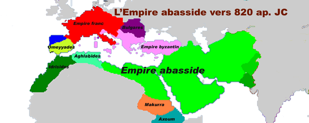 Map of the abassid kalifat, c. AD 820